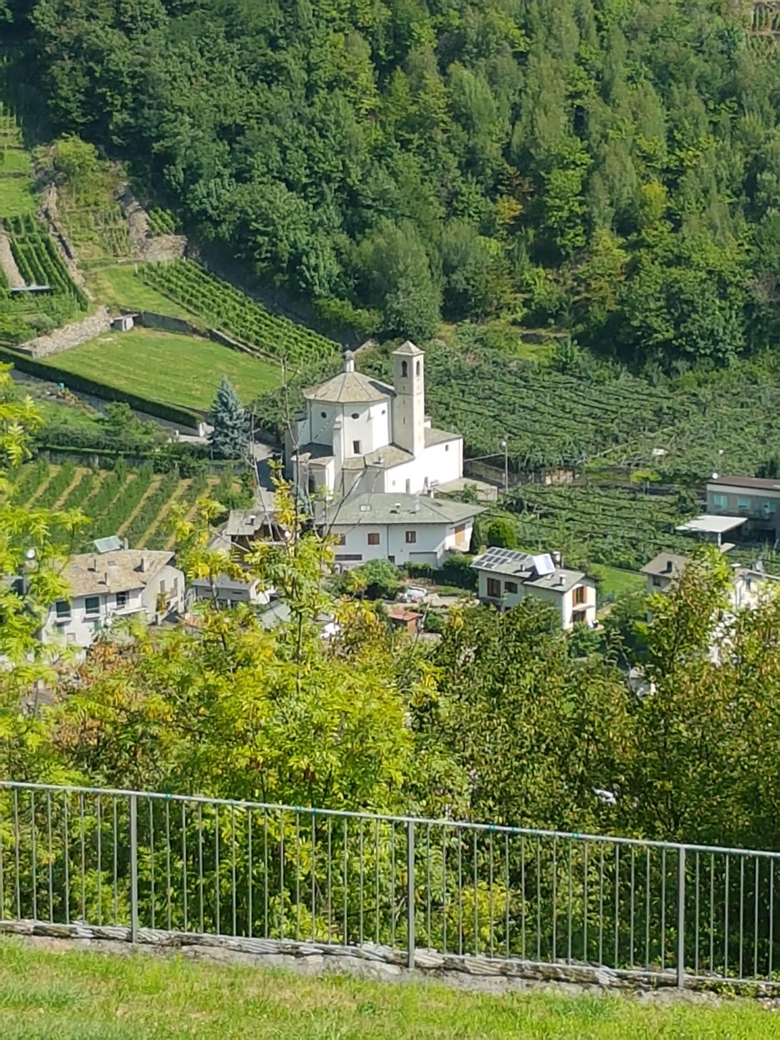 Church of San Rocco (Chiesa San Rocco) in Tirano. View from Xenodochio di Santa Perpetua.